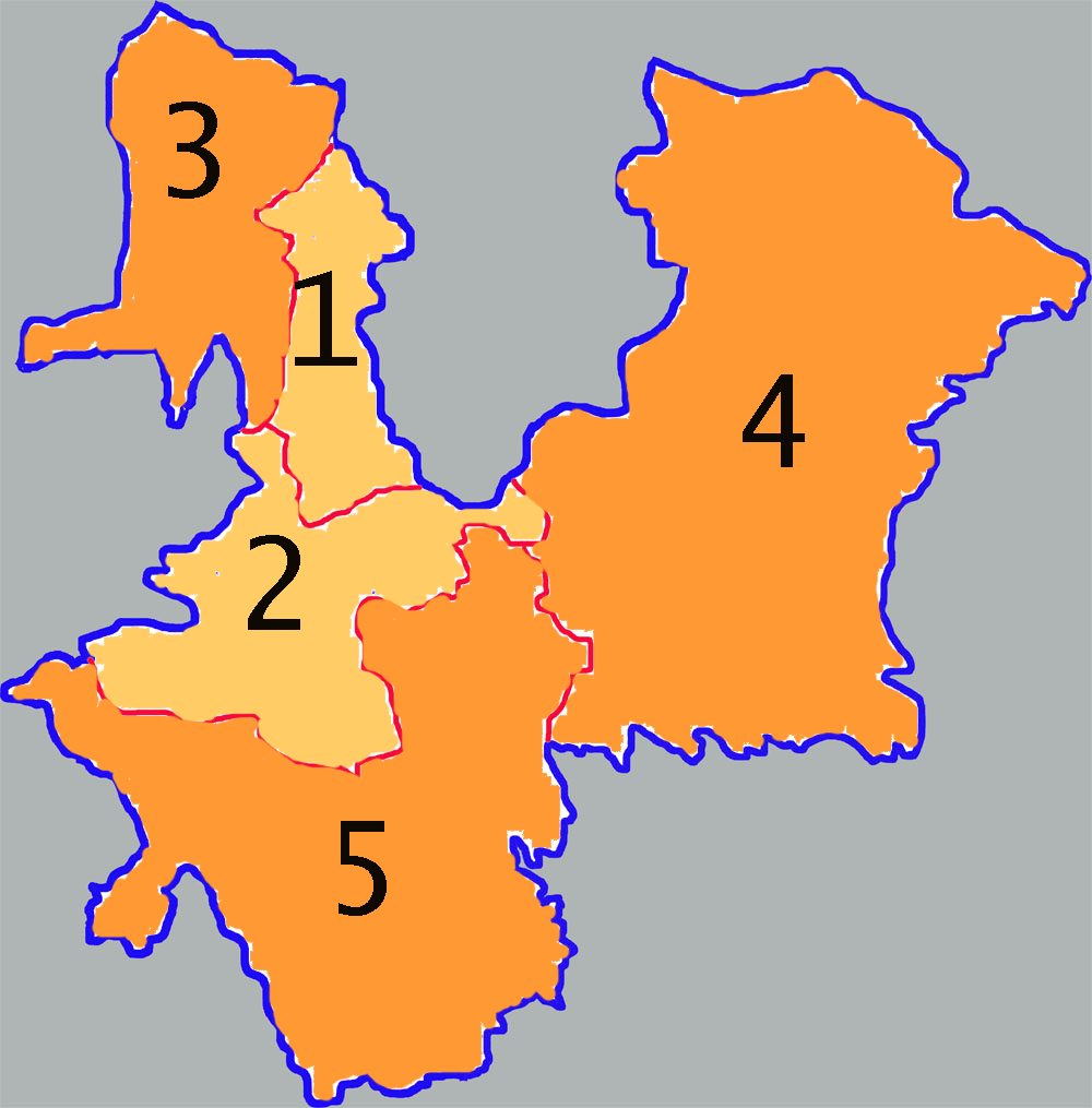 Map of Wuzhong in Ningxia province.